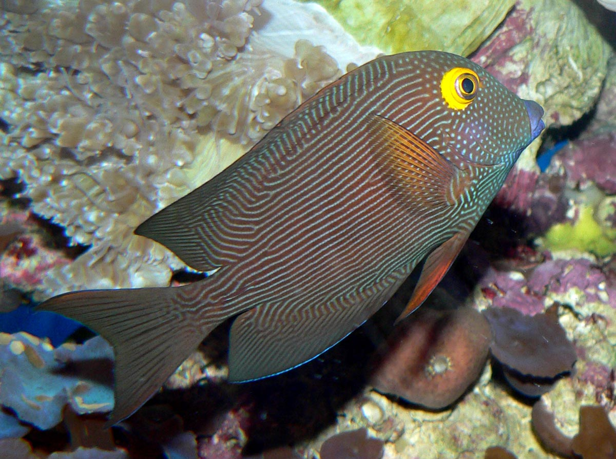 Photo of Ctenochaetus strigosus at the Birch Aquarium in San Diego